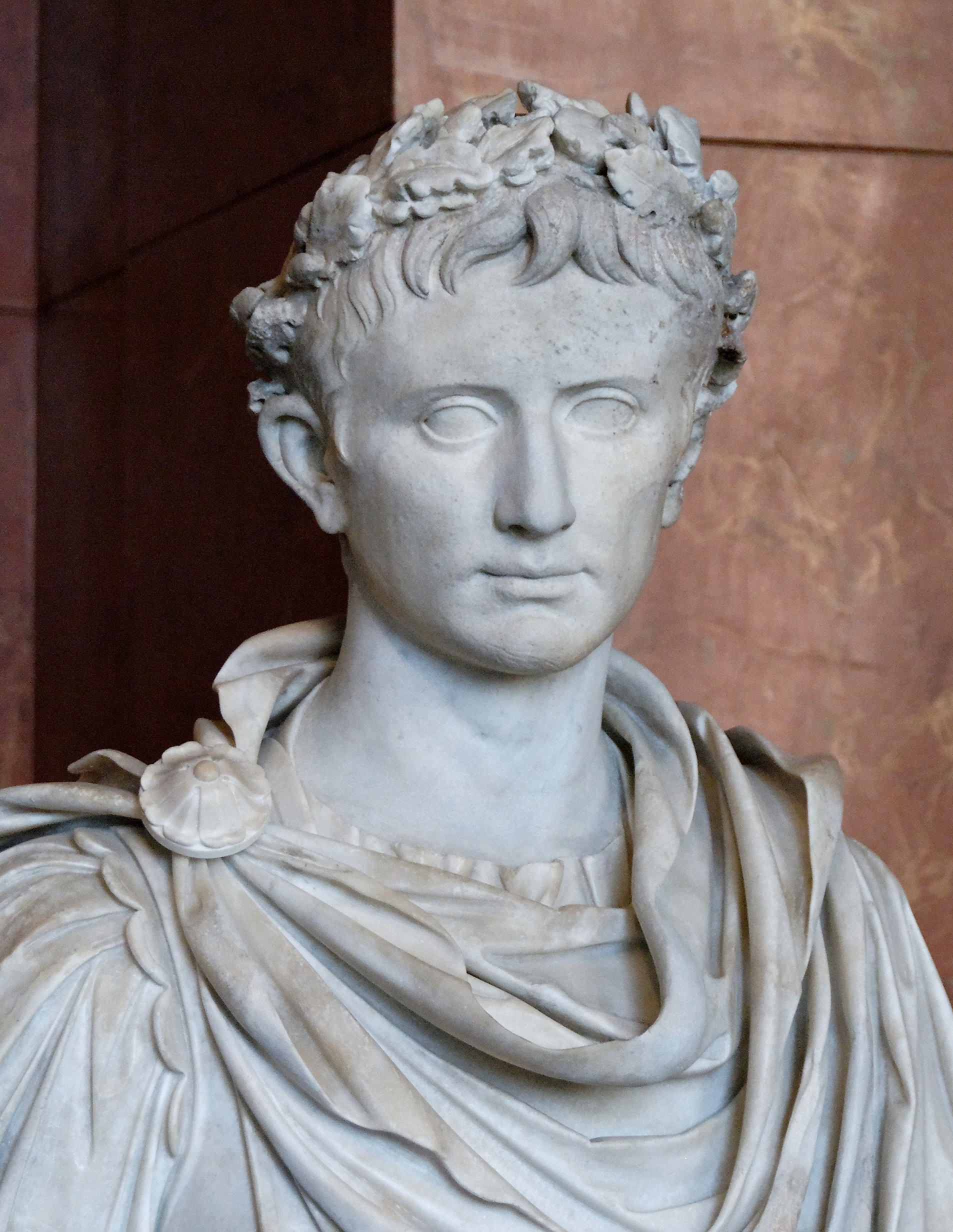 Portrait of Augustus of the Prima Porta type. Marble, early 1st century AD.